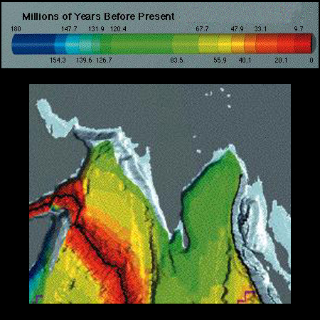 Age of oceanic crust. (See also Image:Earth seafloor crust age 1996.gif) Source: Excerpted from ; original upload in english wikipedia 31 March 2005 by User:SEWilco